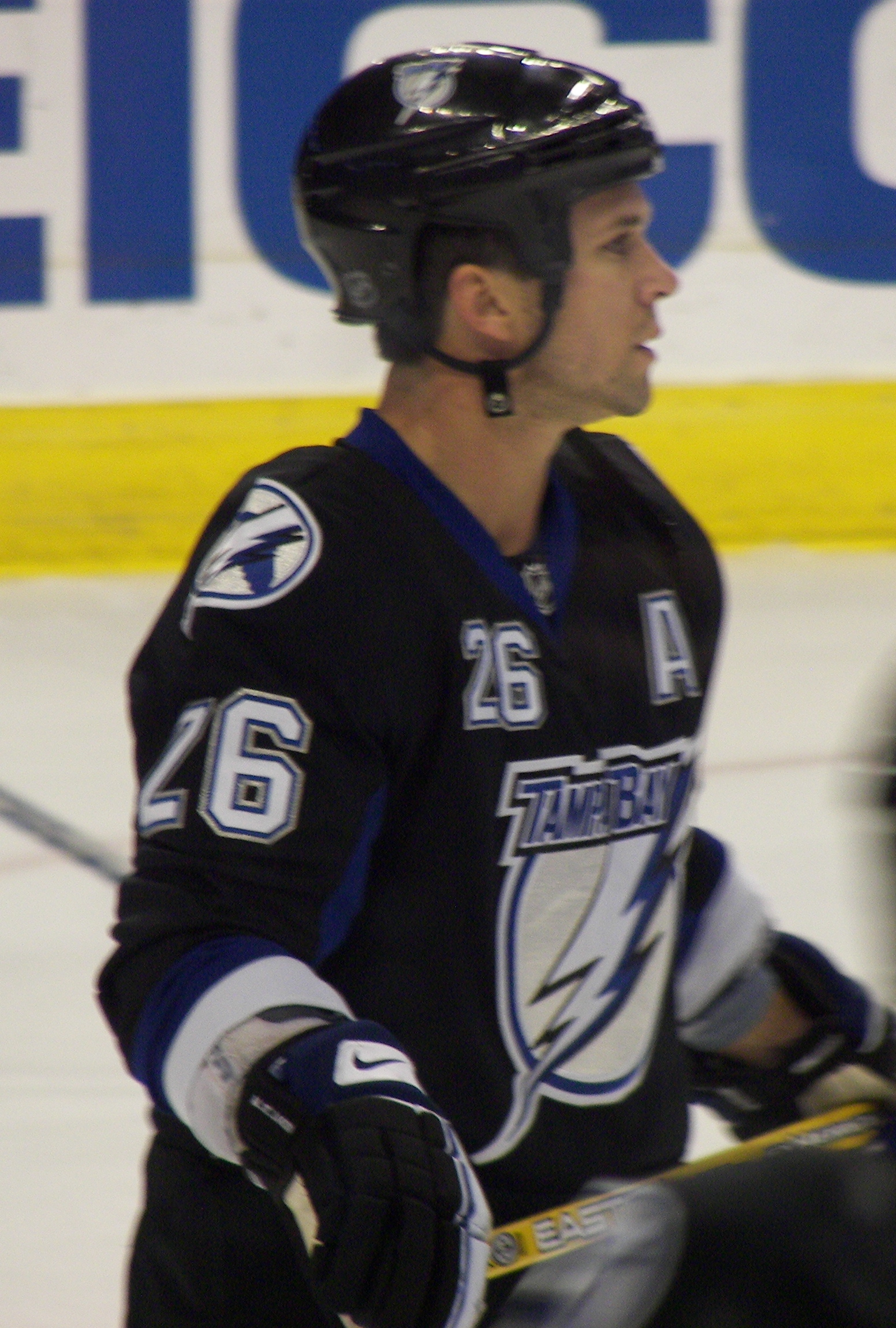 Martin St. Louis of the Tampa Bay Lightning during a Lightning vs. Atlanta Thrashers ice hockey game at the St. Pete Times Forum in Tampa, Florida on October 20, 2007.